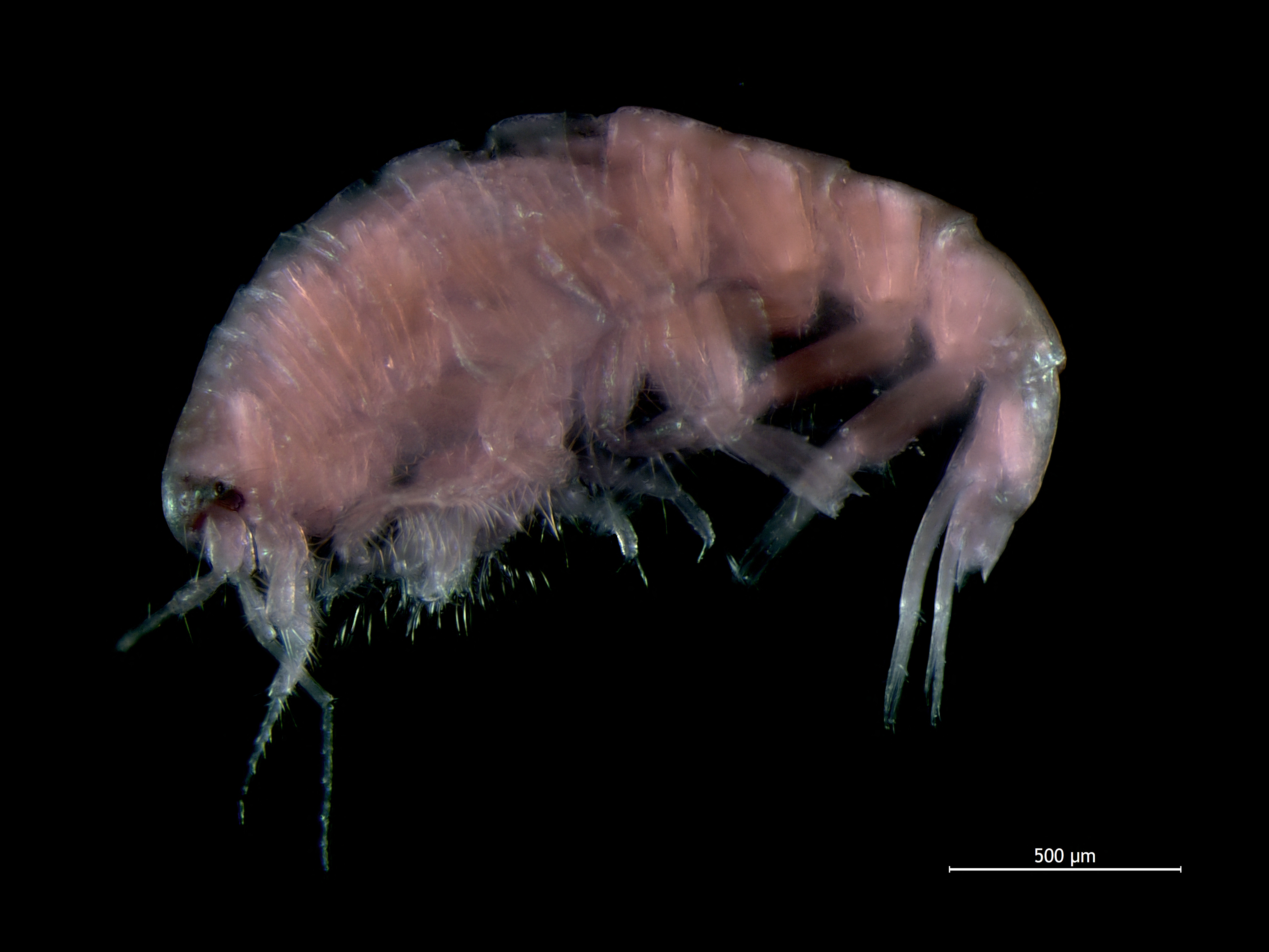 Amphipod with a short, pointed down-turned rostrum and large coalesced eyes. Sampled on mid-sized sediments on the Ccentral part of the Buitenratel at 51°15′55.8″N 2°34′22.84″E / 51.2655°N 2.5730111°E on the Belgian part of the North Sea in 2011. Length: ~2 mm